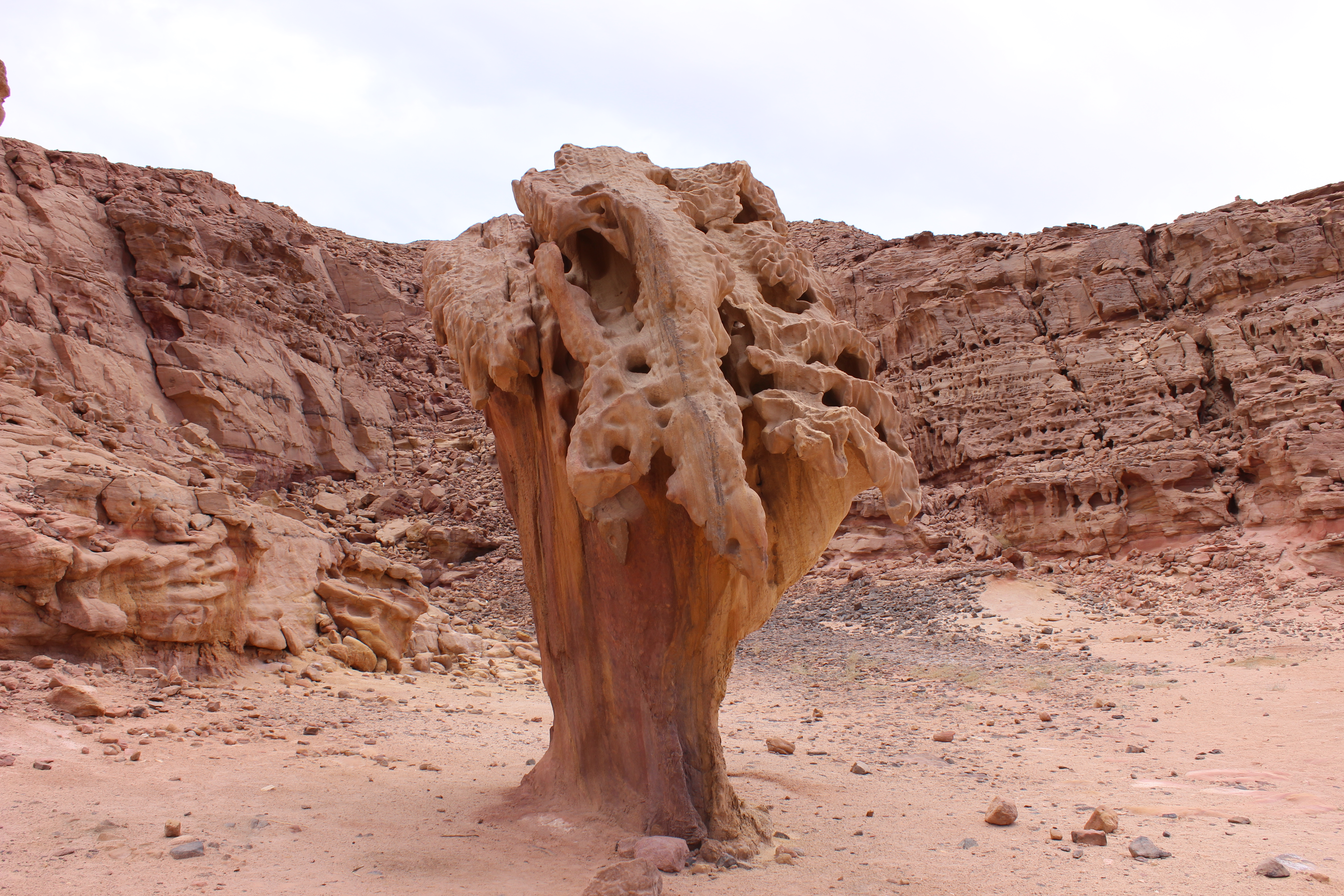 Rock in Ein Khadra Desert Oasis, Nuweibaa, South Sinai, Egypt.